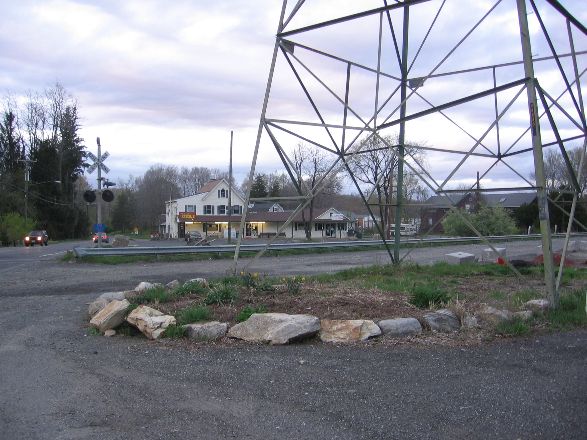 The Hawleyville Deli in the Hawleyville portion of Newtown, Connecticut, USA. The Housatonic Railroad's "Shepaug Reload" warehouse facility is off to the right (outside frame). The Deli opened in this building in 1915 according to the caption of an old framed photograph that hangs on the wall inside.